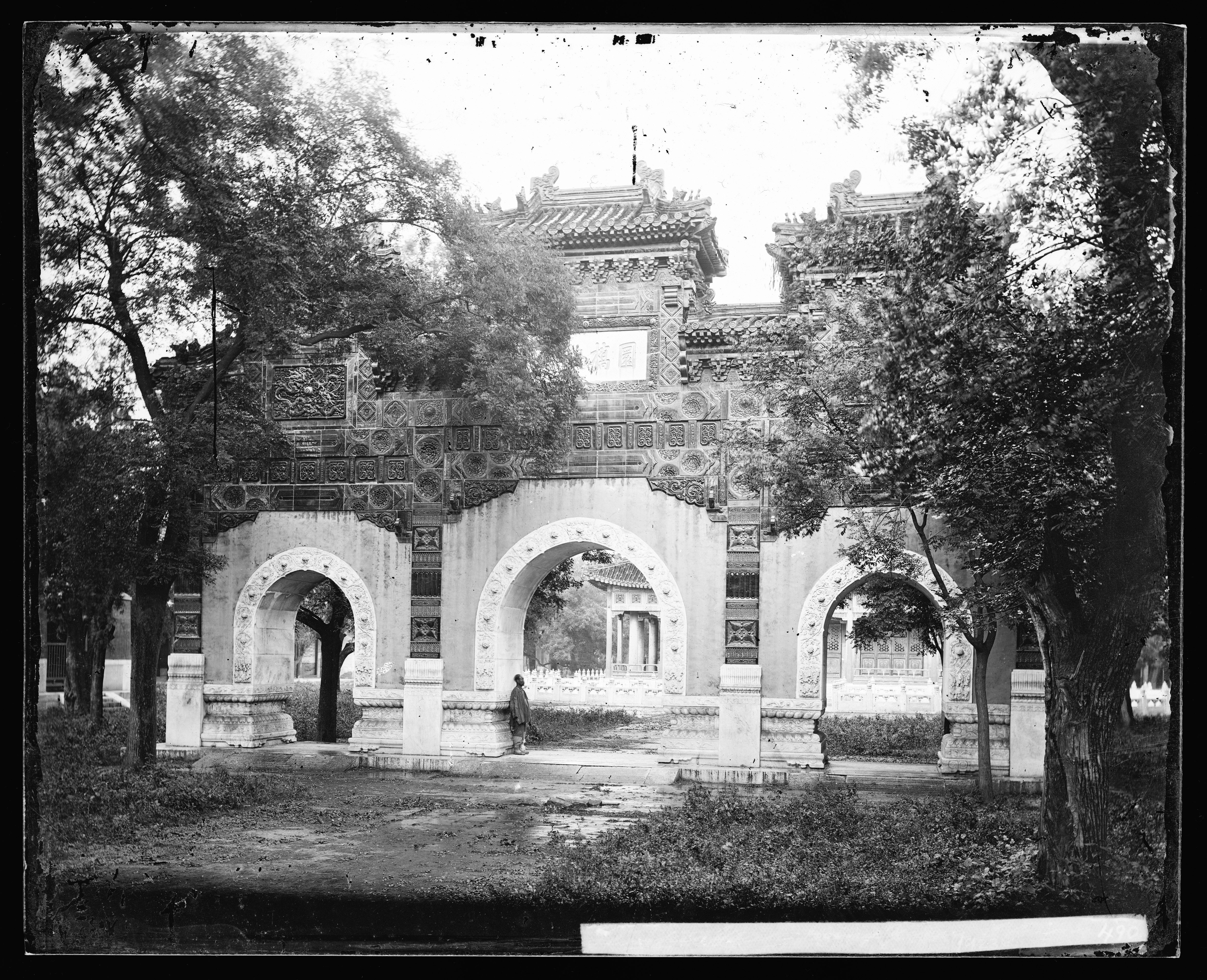 Hall of Classics (Guozijian), Peking: a triple archway of sculpted marble leading to the hall. Photograph by John Thomson, 1871. Guozijian, or the National University, was the highest national learning institution through three dynasties the Yuan, the Ming and the Qing. It was established as the Imperial Academy or Imperial College in 1306. This triple archway, or honorary portal has a roof covered entirely with yellow glazed tiles. This is the only archway in Beijing erected to honour education, declaring that, in imperial China, learning and knowledge hold a central place. There are inscriptions by the Qianlong emperor on both sides of the archway. The Guozijian was built on this site in 1783 (Pearce, op. cit.). Later, the Capital Library and subsequently part of the Capital Museum. Iconographic Collections Keywords: J. Thomson